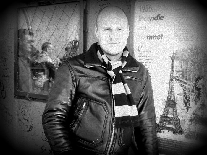 I have personally taken the picture at Tour Eiffel in Paris, France.